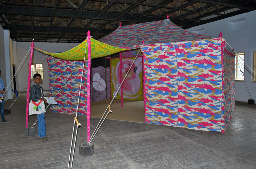 Francesco Clementes peper tent at kochi muziris bienelle2014